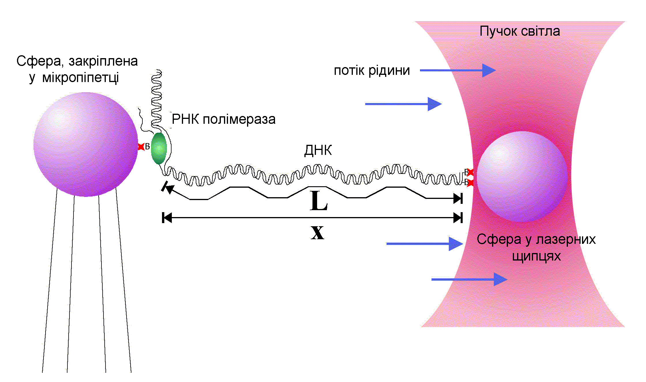 Using optical tweezers to study RNA polymerase